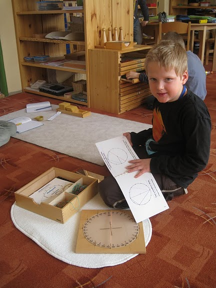 Montessori education